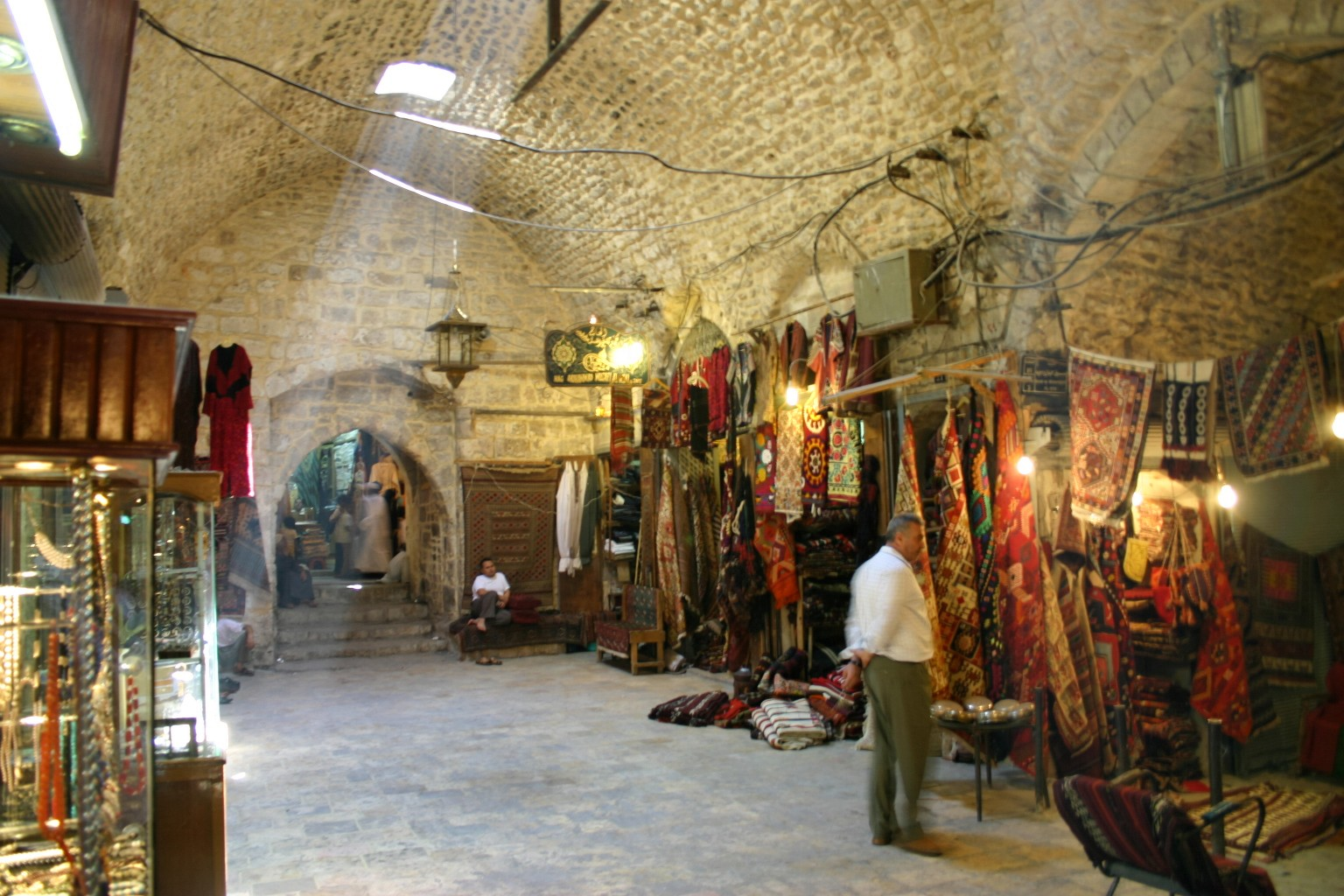 Aleppo, textile suq market (Suq al-Hiraj سوق الحراج)